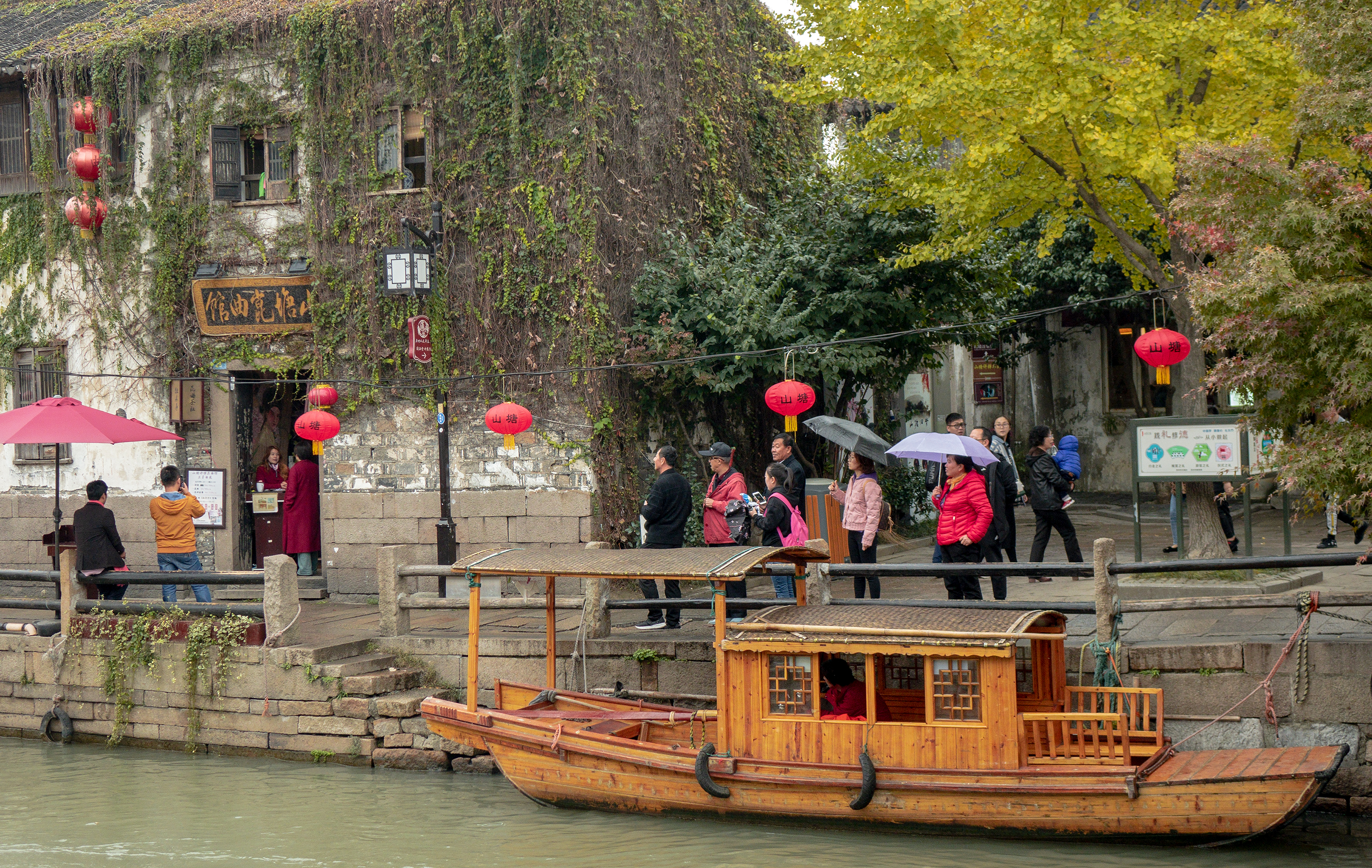 Many tours are offered along the canals, in various types of craft, including some that resemble traditional boats